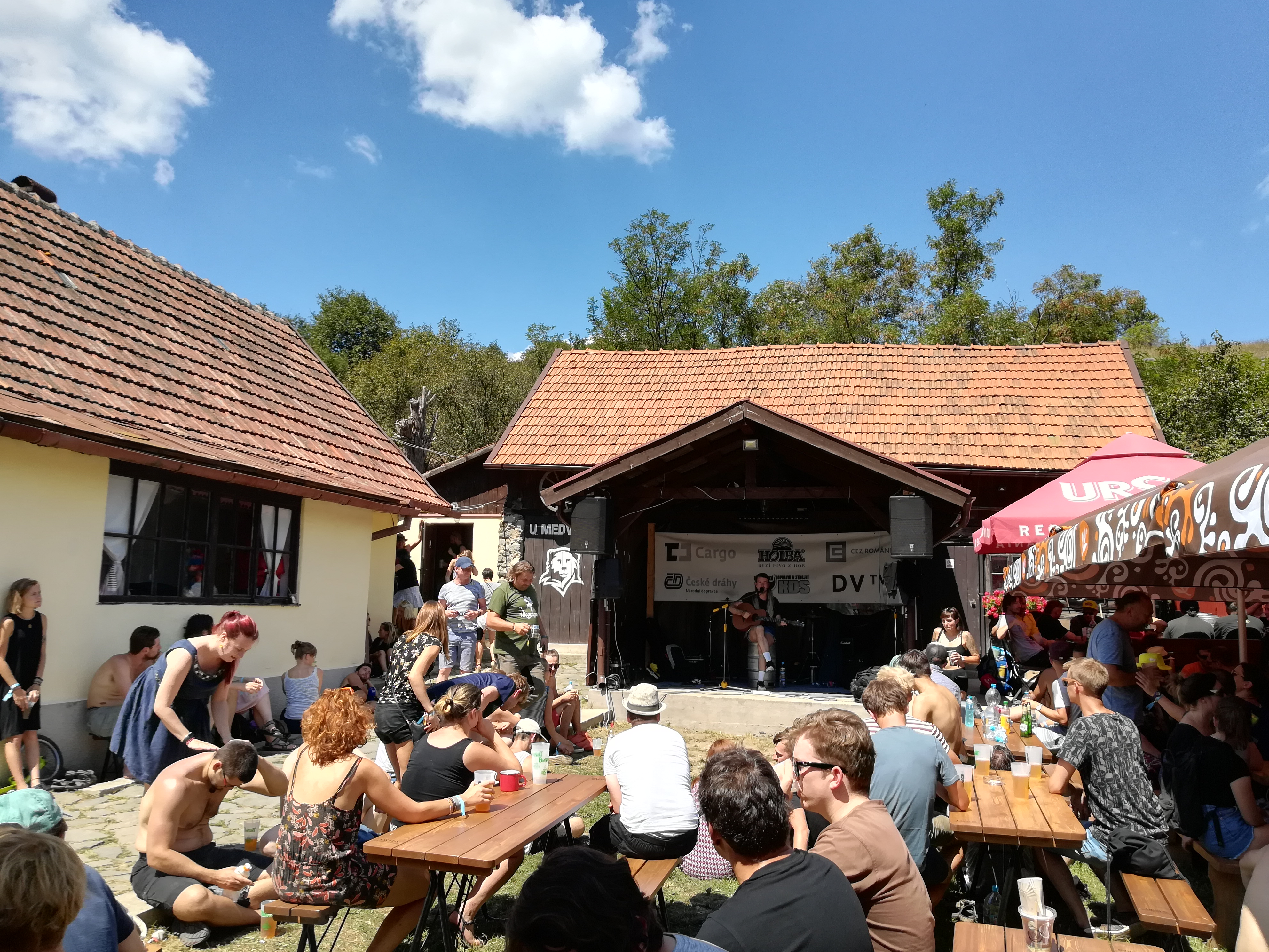 music festival in Eibenthal, Banát Region, Romania